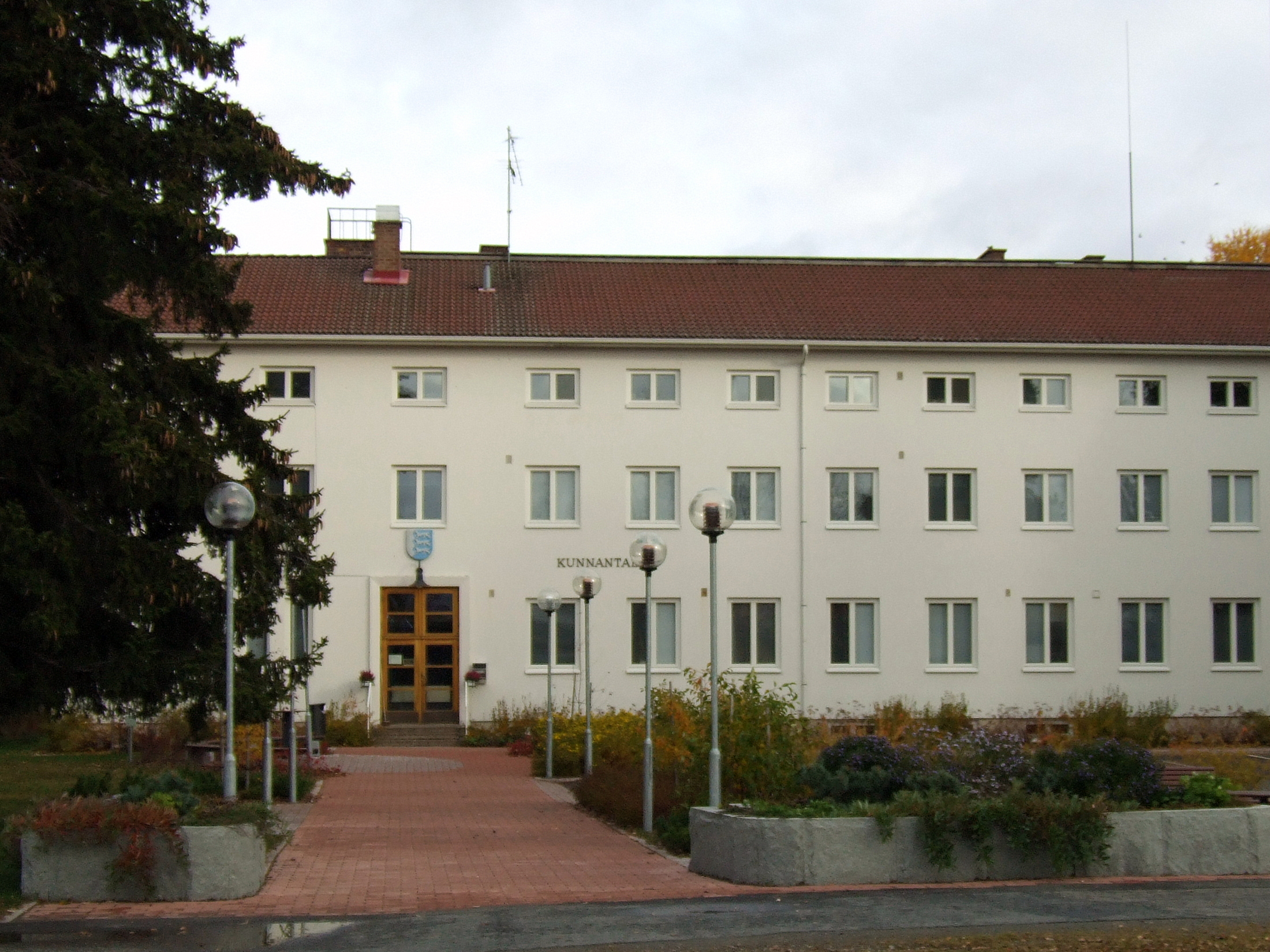 Liminka Town Hall was designed by architect office Lappi-Seppälä and Martas and built in 1955. The building was torn down in 2015.